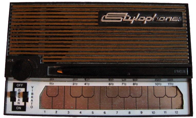 I photoshop'd the background colour for the Stylophone.. but the photo is mine.